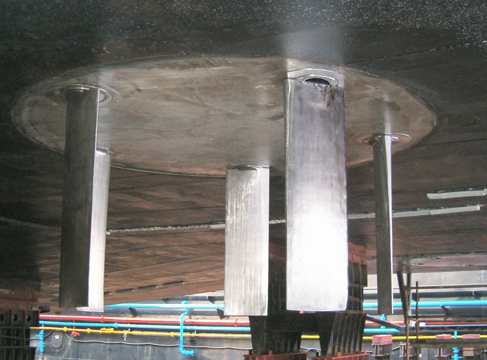 Cycloidal propeller